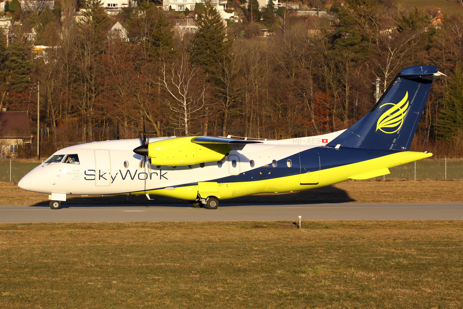 Back track to runway 14 in LSZB